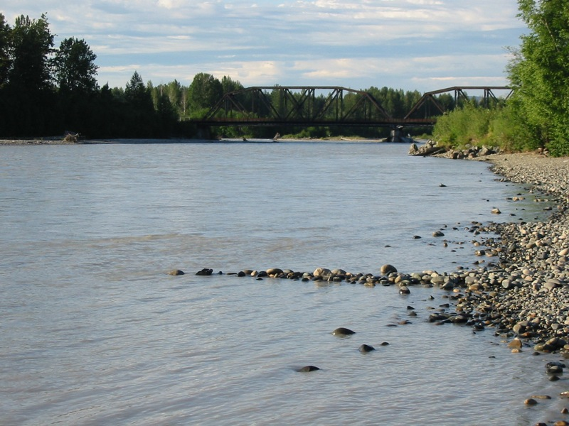 Talkeetna River at the town of the same name.